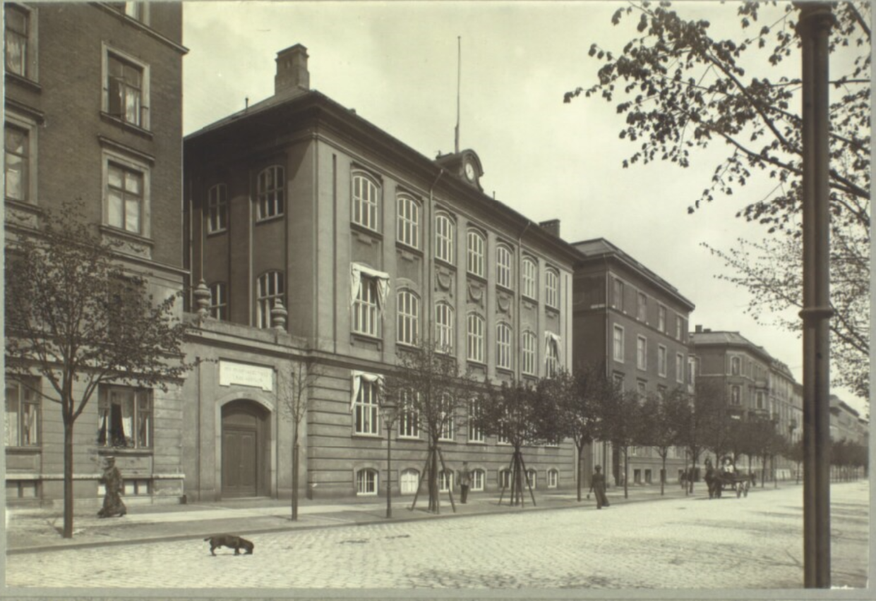 Stockholmsgade, Farmaceutisk Læreanstalt